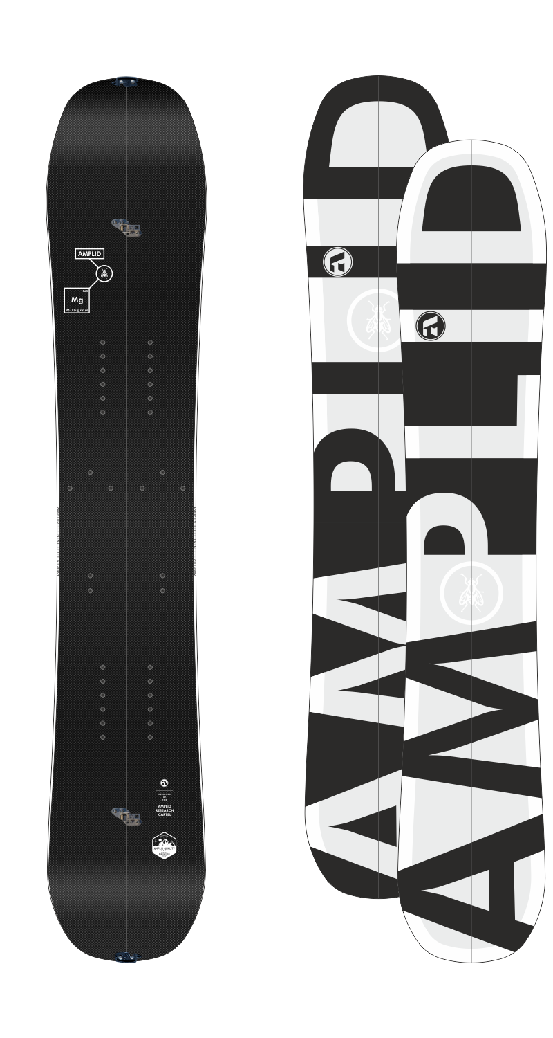 Milligram Splitboard